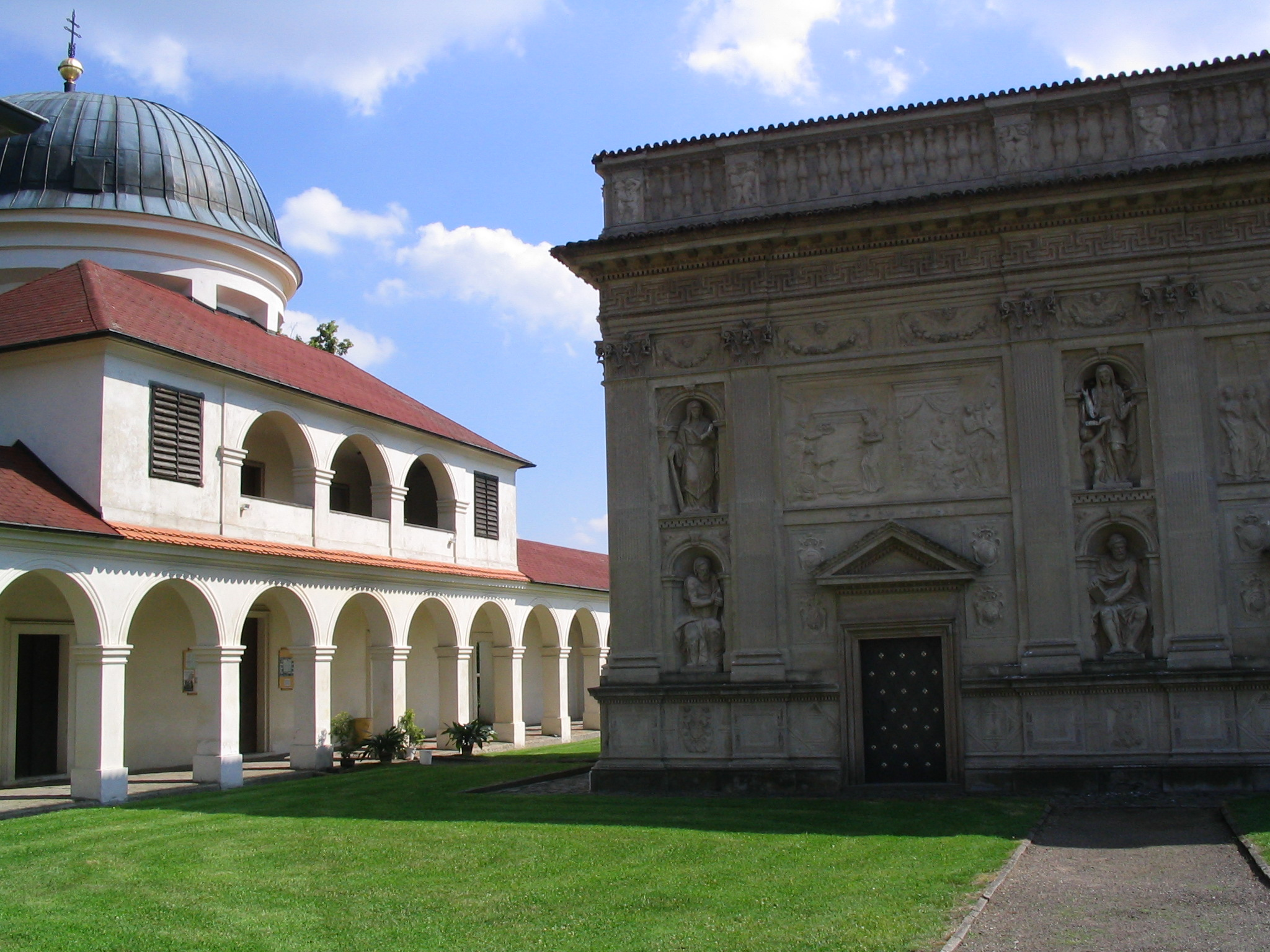 Chapel and Campanille in Kosmonosy, Czech Republic